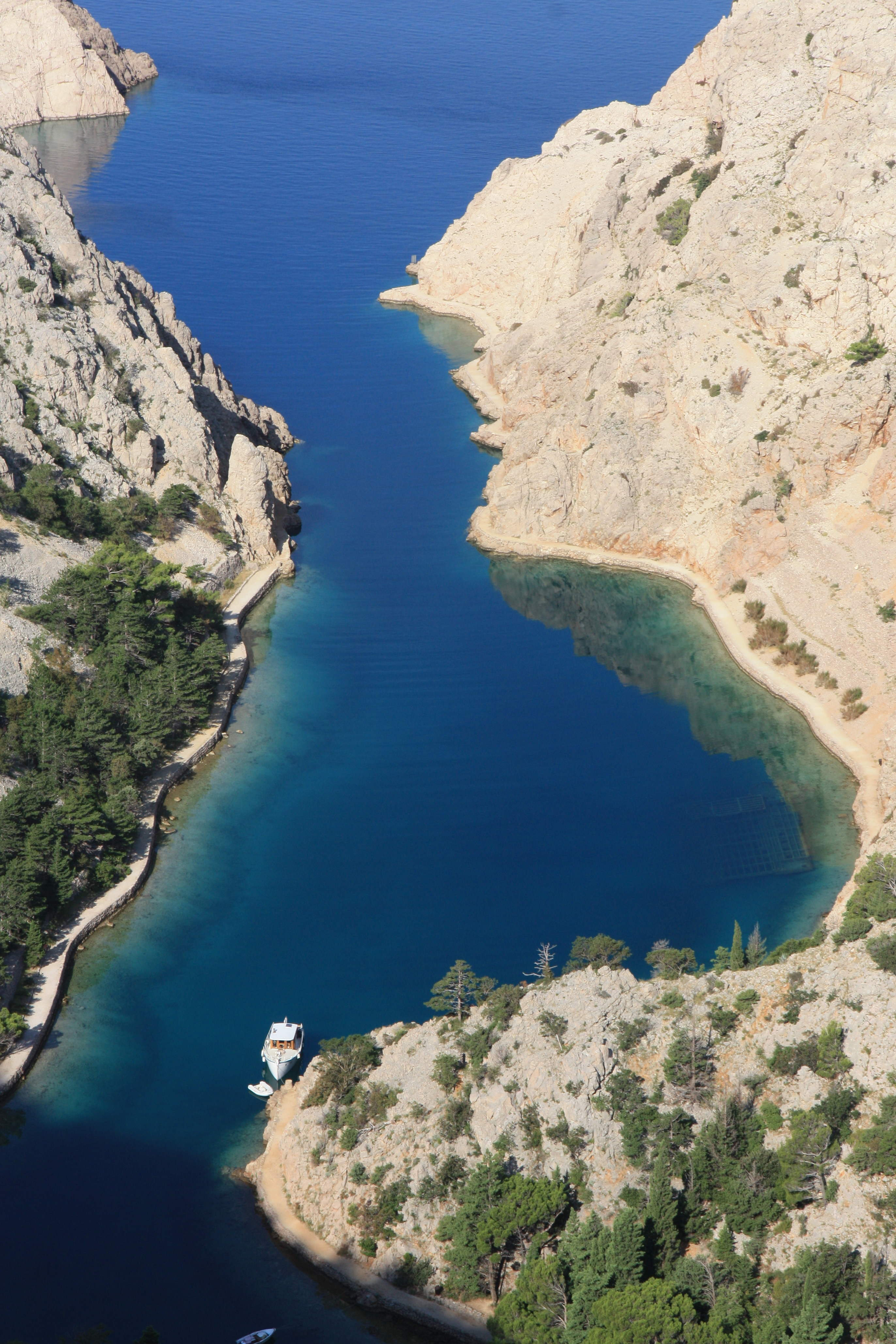 Protected landscape Zavratnica This is a a photo of a natural area in Croatia with ID: SL05